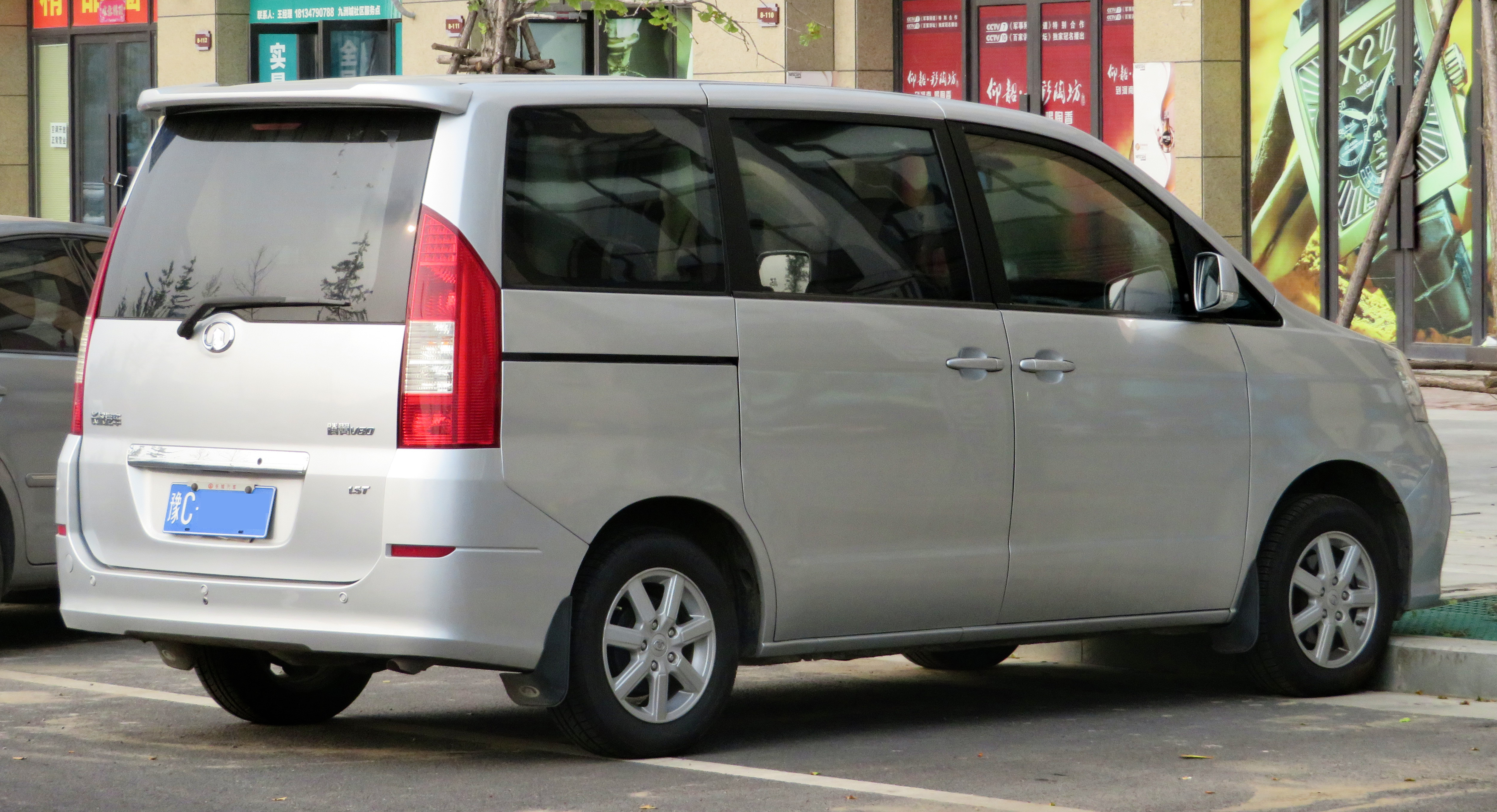 A 2011 Great Wall Voleex V80 1.5T photographed in Xigong District, Luoyang, Henan province, China